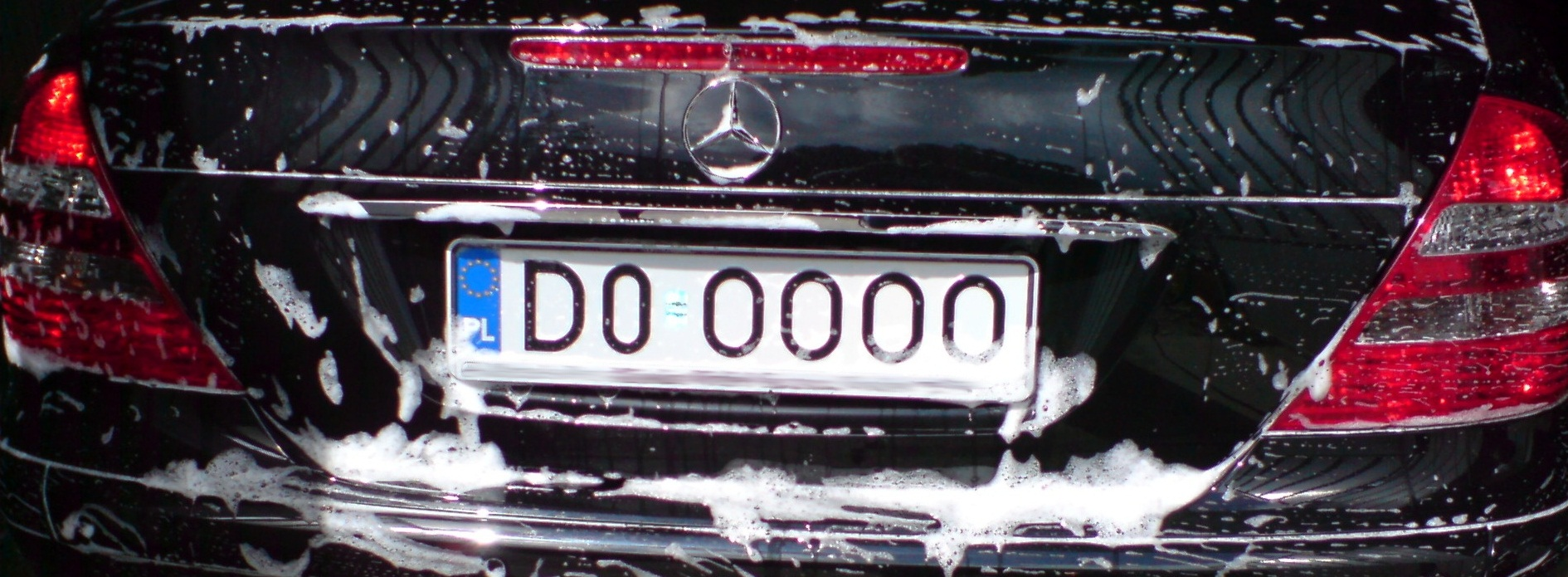 Polish individual license plate. Series since 2006